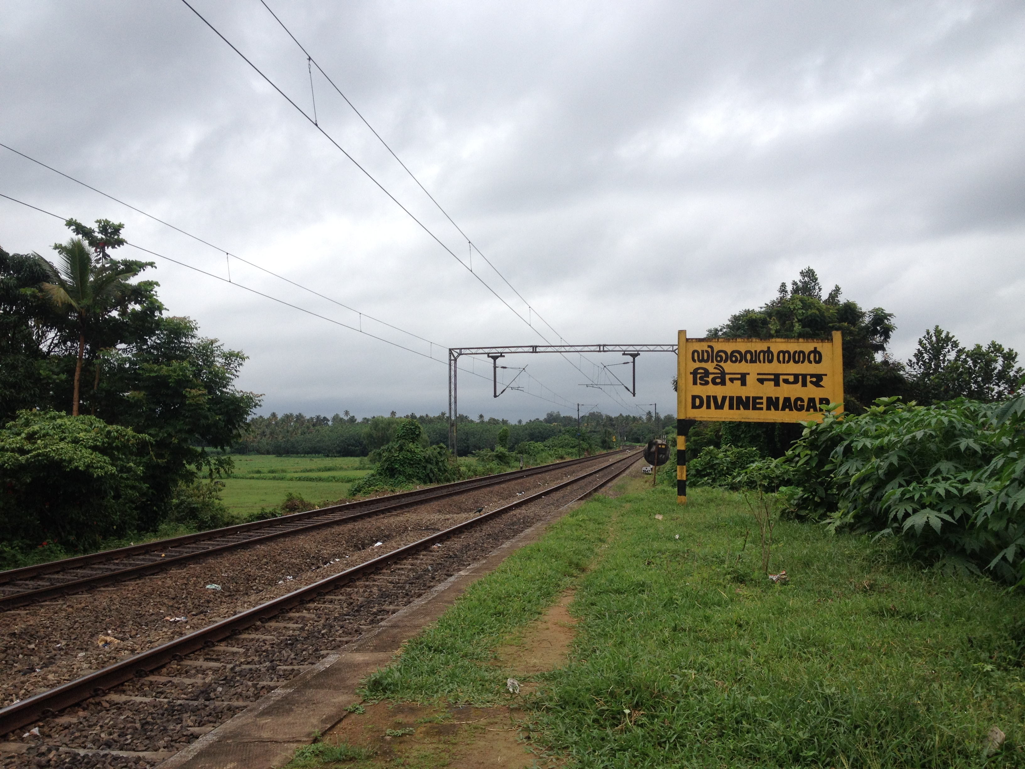 Divine Nagar Railway Station near Chalakudy, Kerala, India